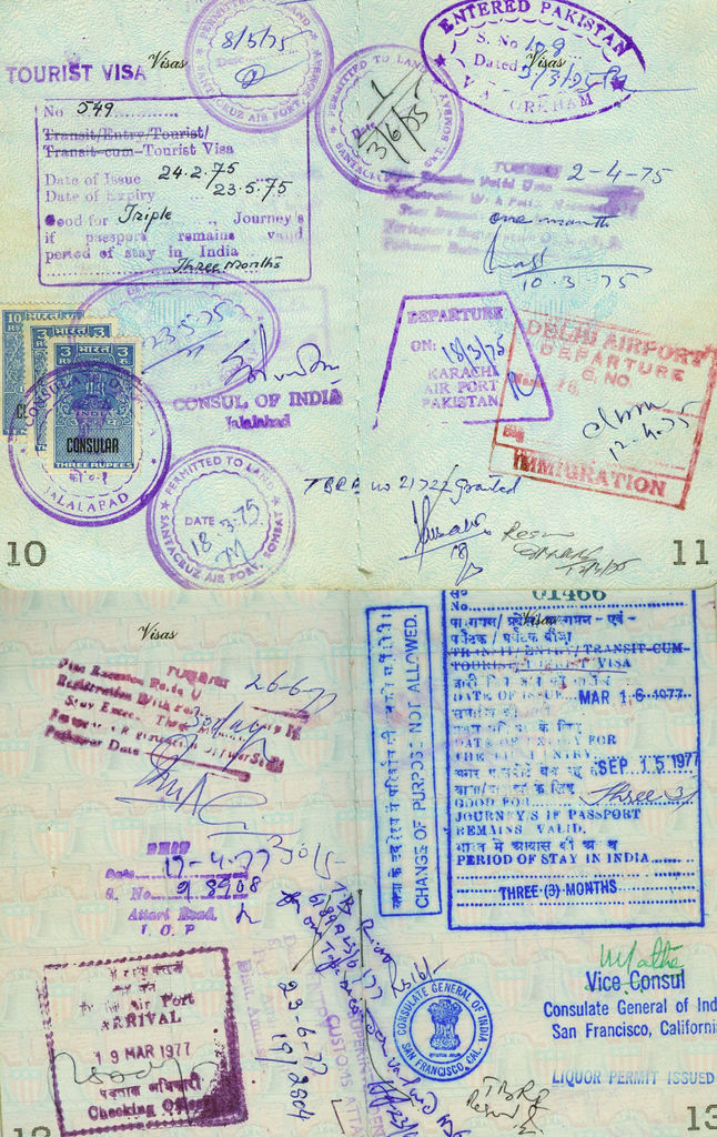 from the days of the road , bus train and plane .